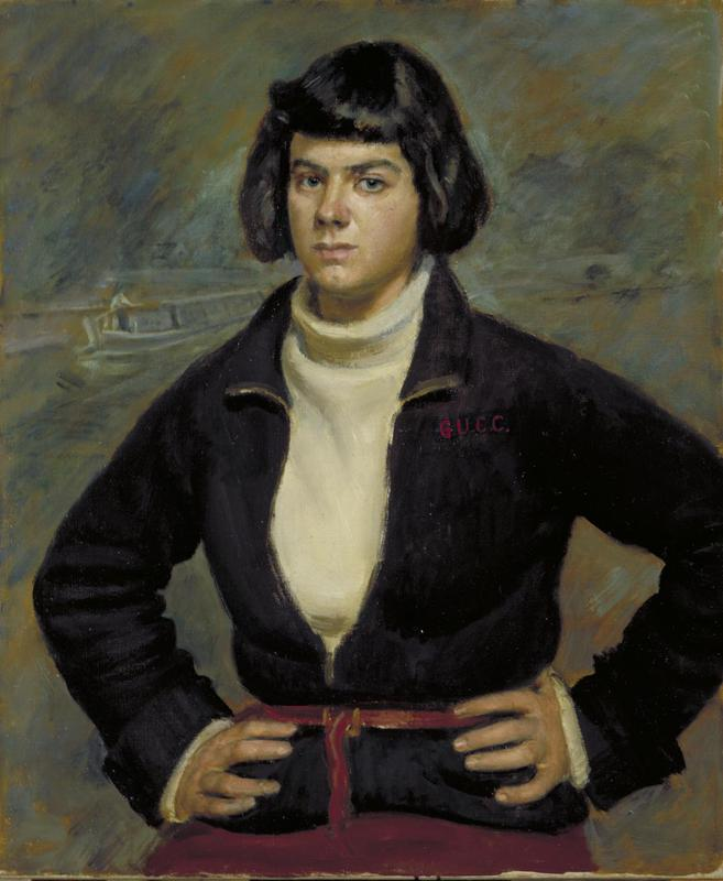 Three-quarter portrait of Christian Vlasto, seated with hands on hips, with a sketch of a canal-boat in background.